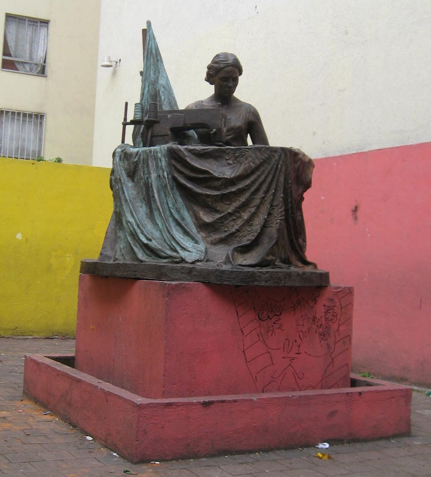 Statue of seamstress located at Manuel J Othon and San Antonio Abad to commemorate the workers lost during the 1985 earthquake in Mexico City